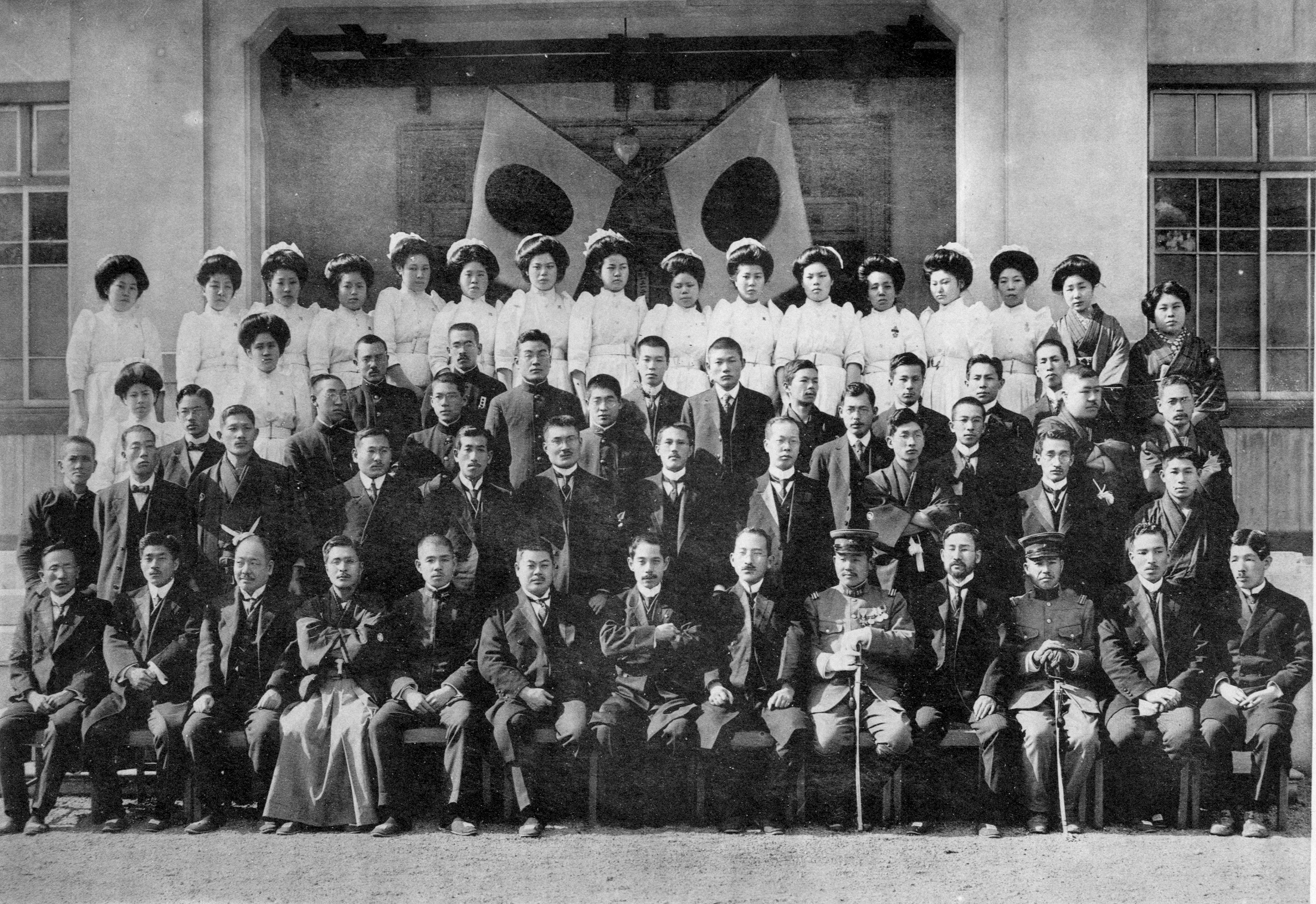 Department of Otorhinolaryngology, Imperial University of Kyushu (Fukuoka, Japan) with Professor KUBO Inokichi (first row, center). Photo taken in 1920.